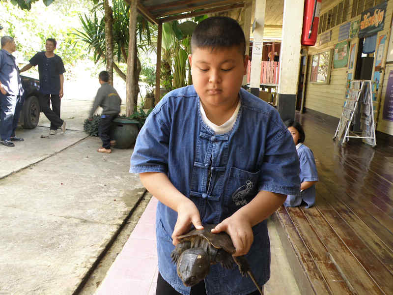 Thai boy with turtle